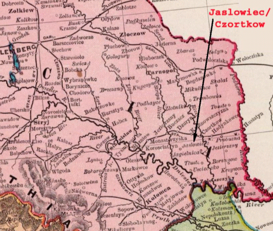 This is south-east portion of Galicia in 1897. It was done from map of Galicia